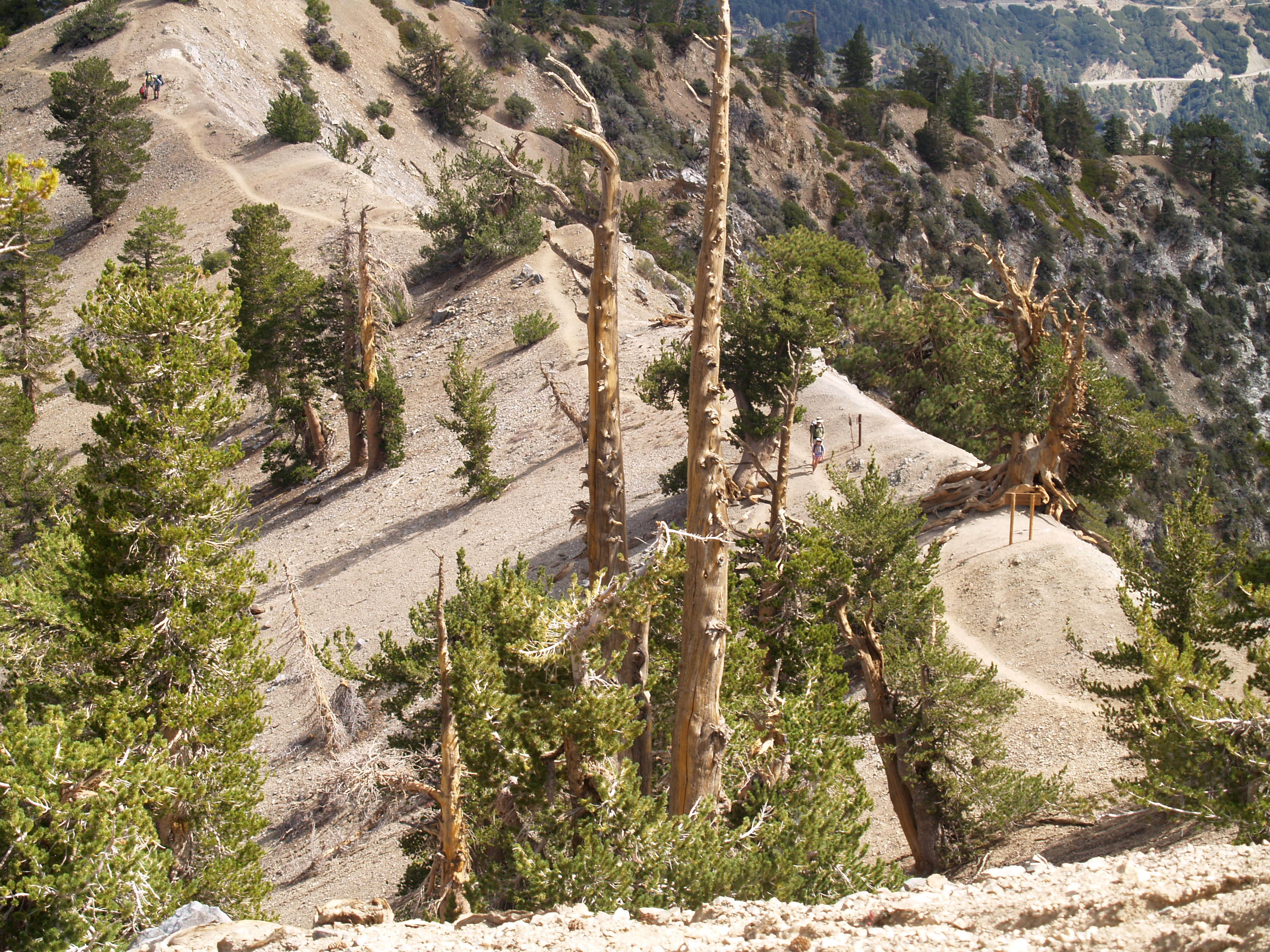 Pinus flexilis forest (also some Pinus jeffreyi in background), Mount Baden-Powell, San Gabriel Mountains, California.